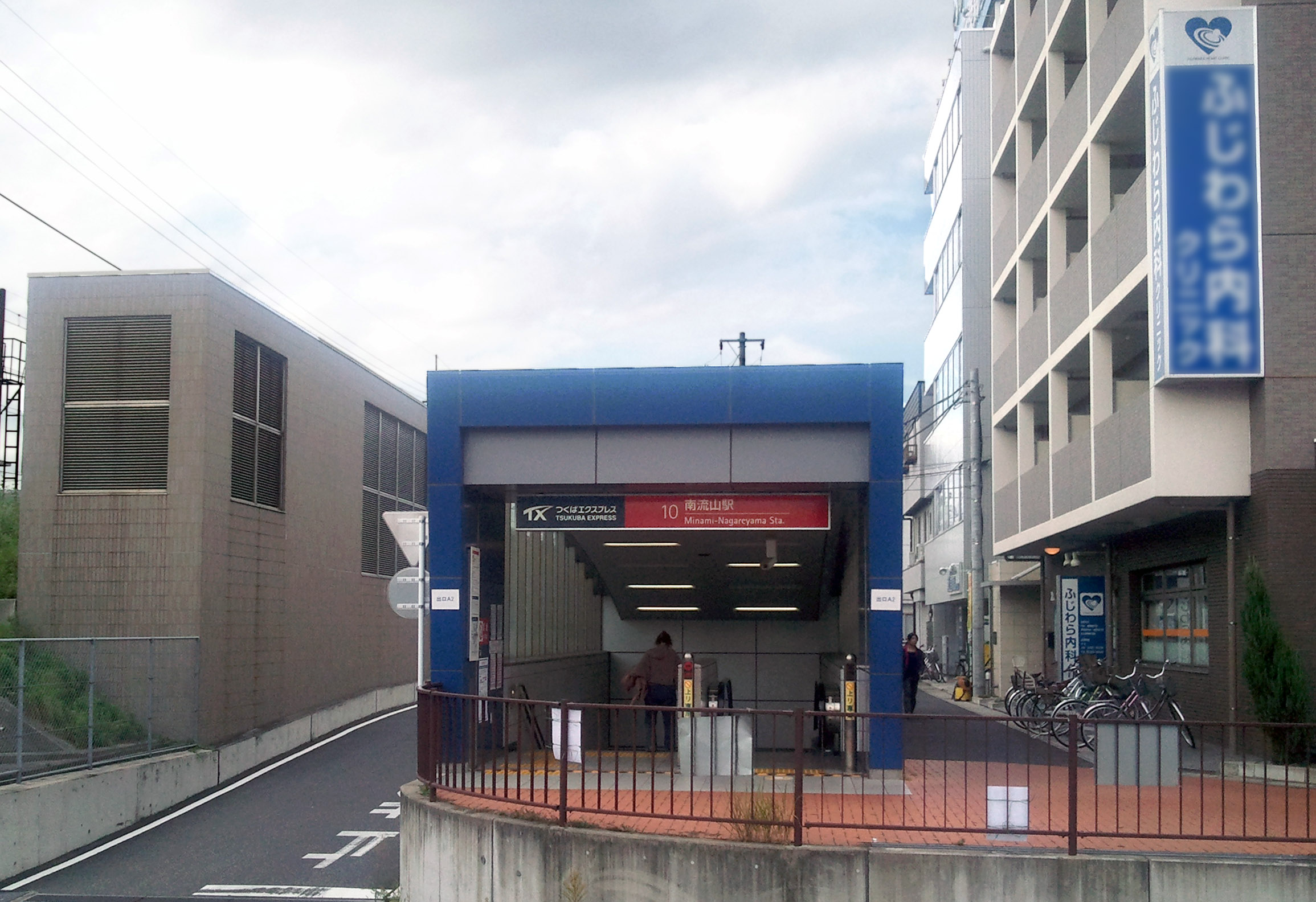 Exit A2 of Minami-Nagareyama Station on the Tsukuba Express